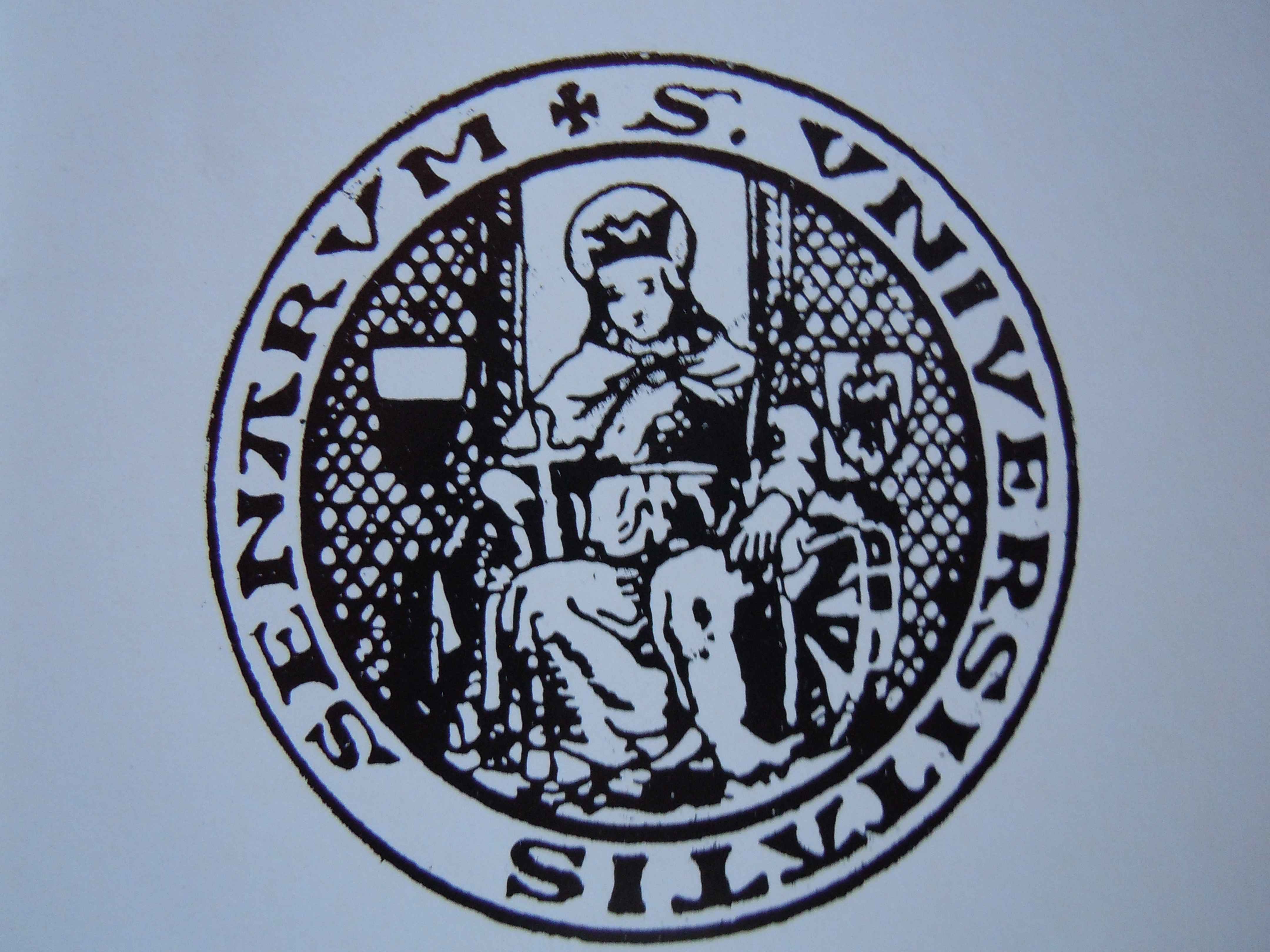 Historical seal of the Università degli Studi di Siena